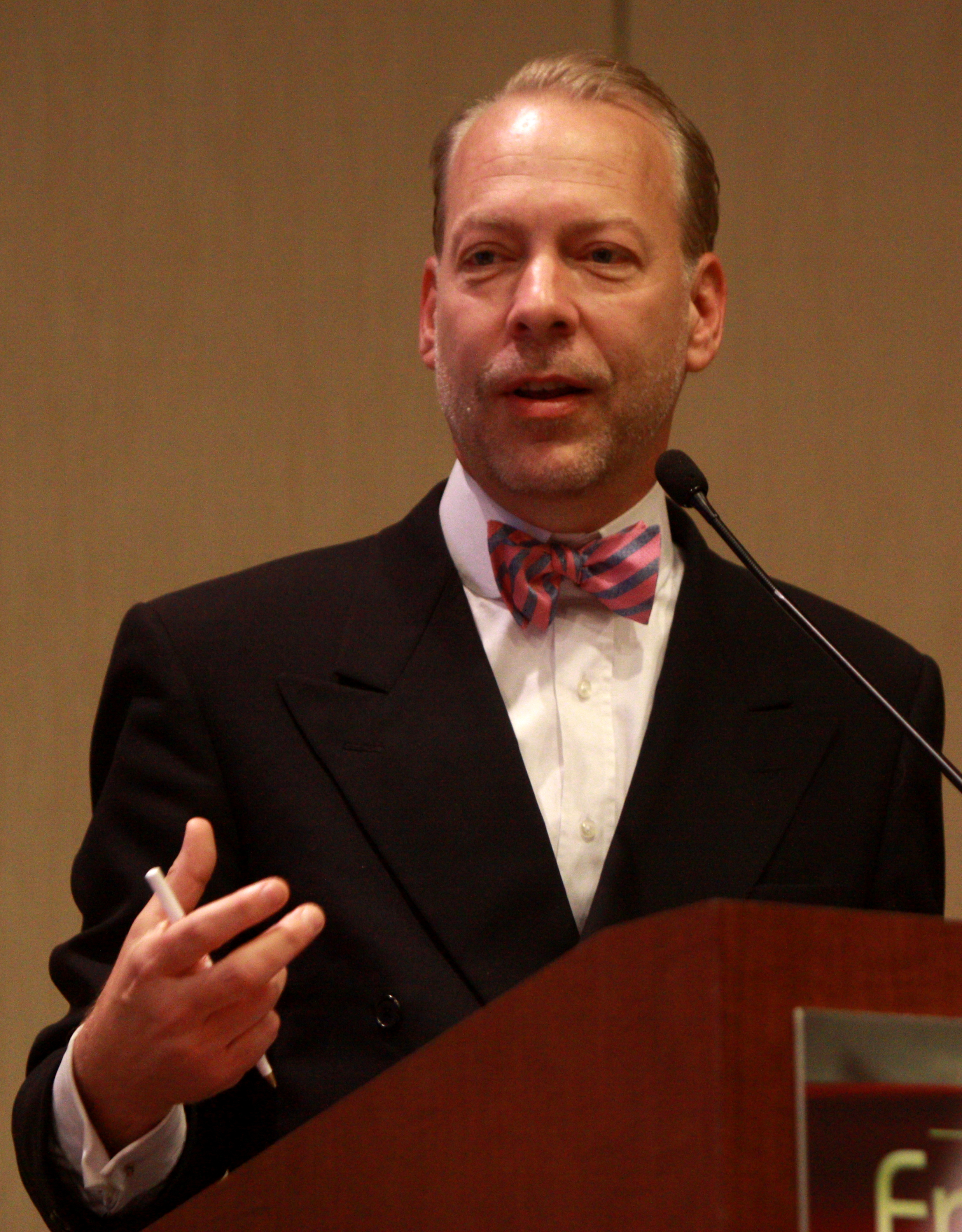 Jeffrey Tucker speaking at the 2013 FreedomFest in Las Vegas, Nevada.